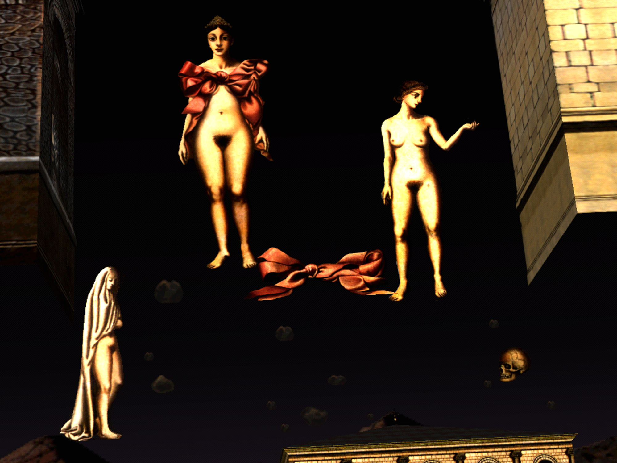 Screenshots of pioneering interactive installation at ZKM Karlsruhe.